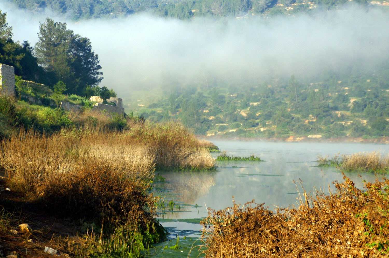 Geography of Israel